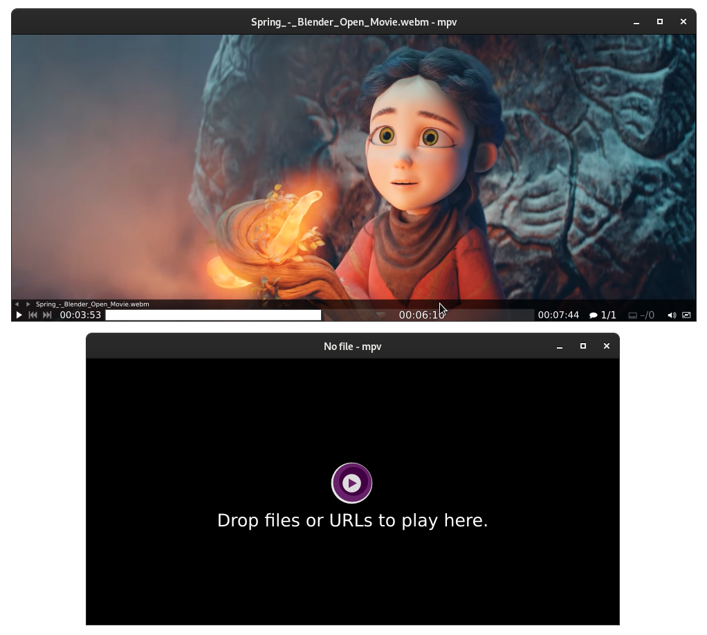 mpv (media player) 0.32 on Linux This PNG graphic was created with GIMP.